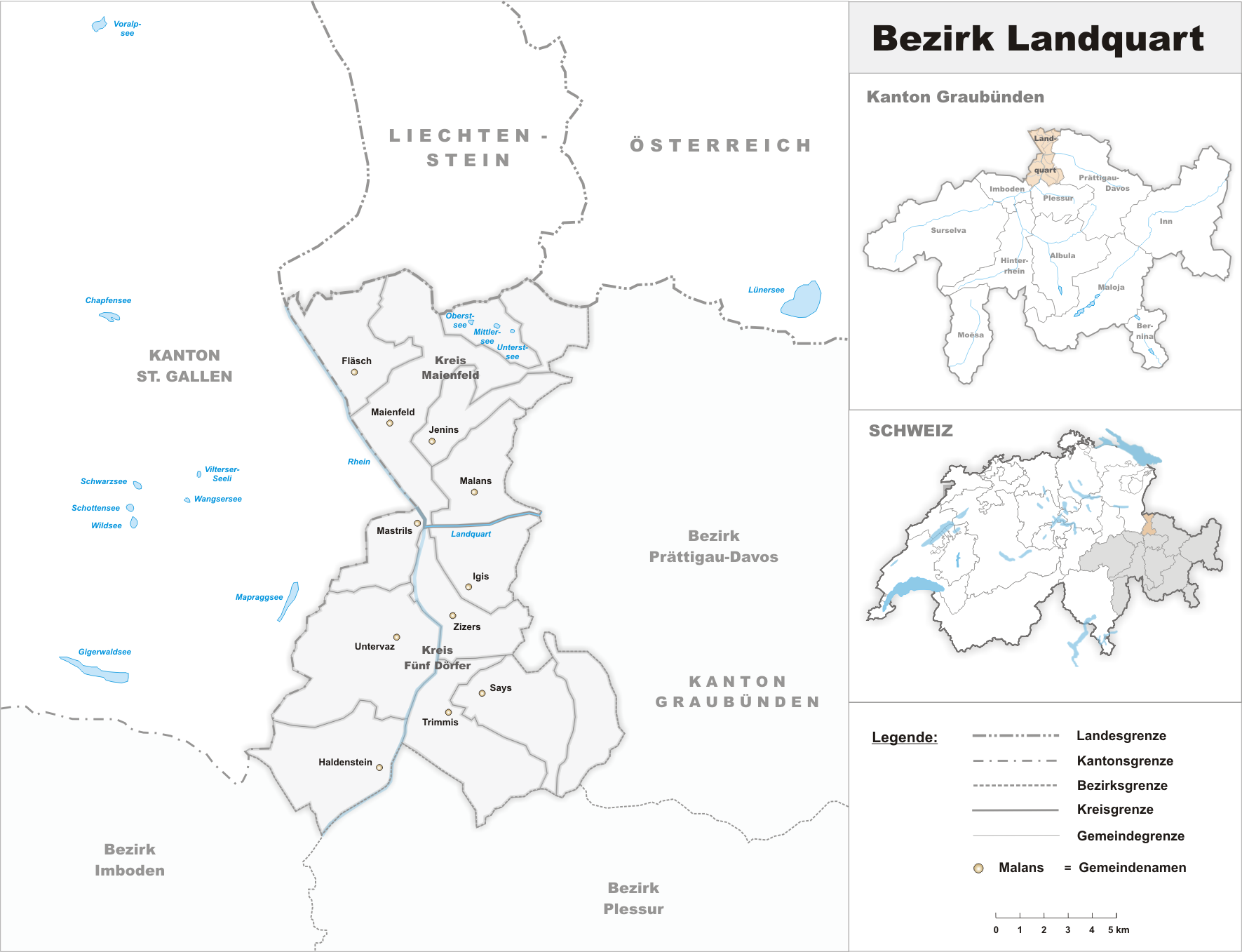 Municipalities in the district of Landquart until 2007